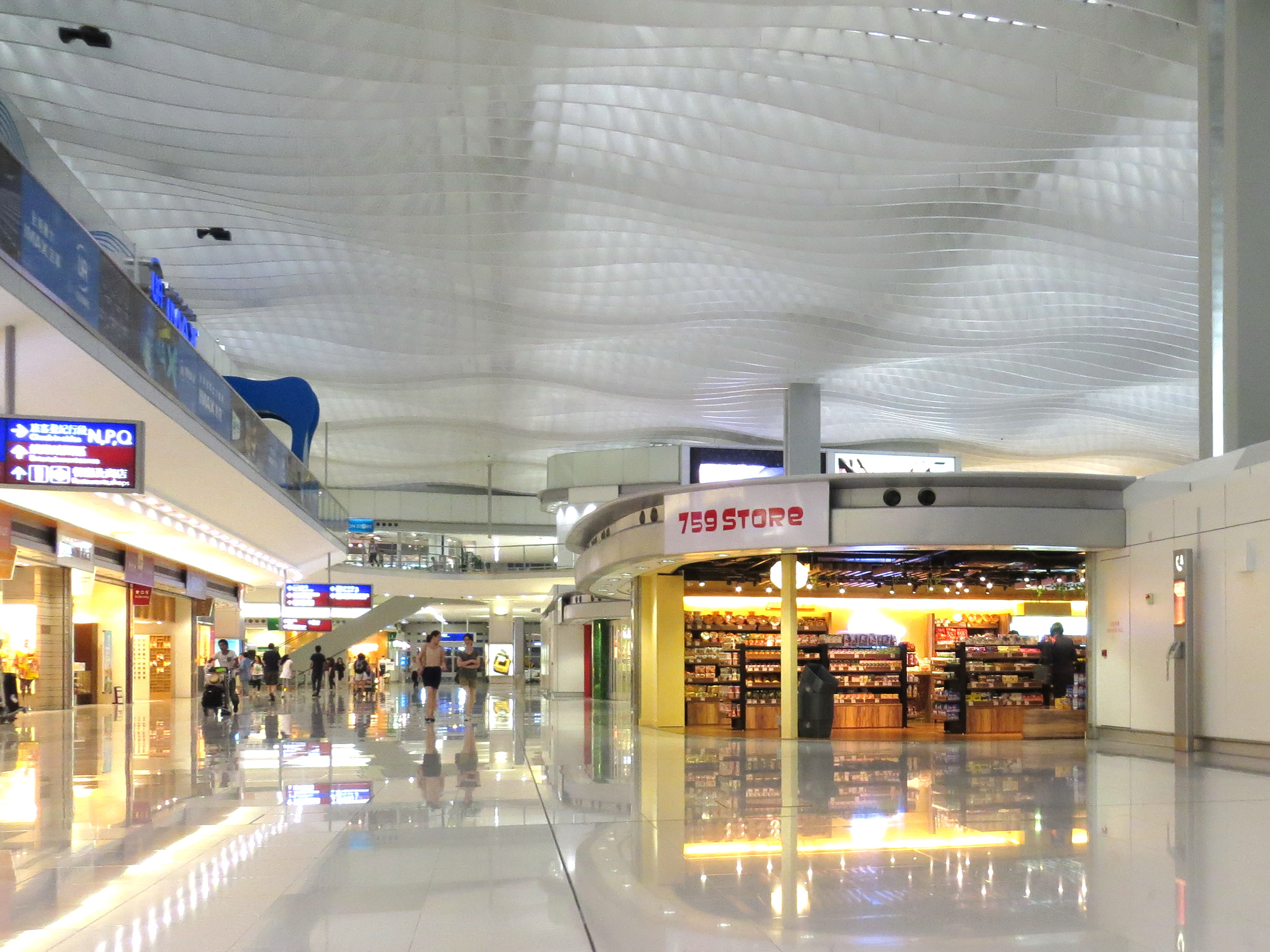 A 759 Store at the Hong Kong International Airport, Terminal 2, Hong Kong.